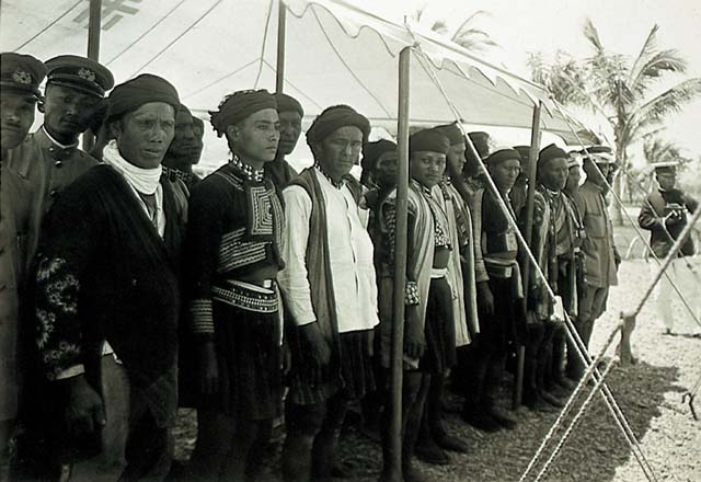 Tamaho Bununs at a celebration